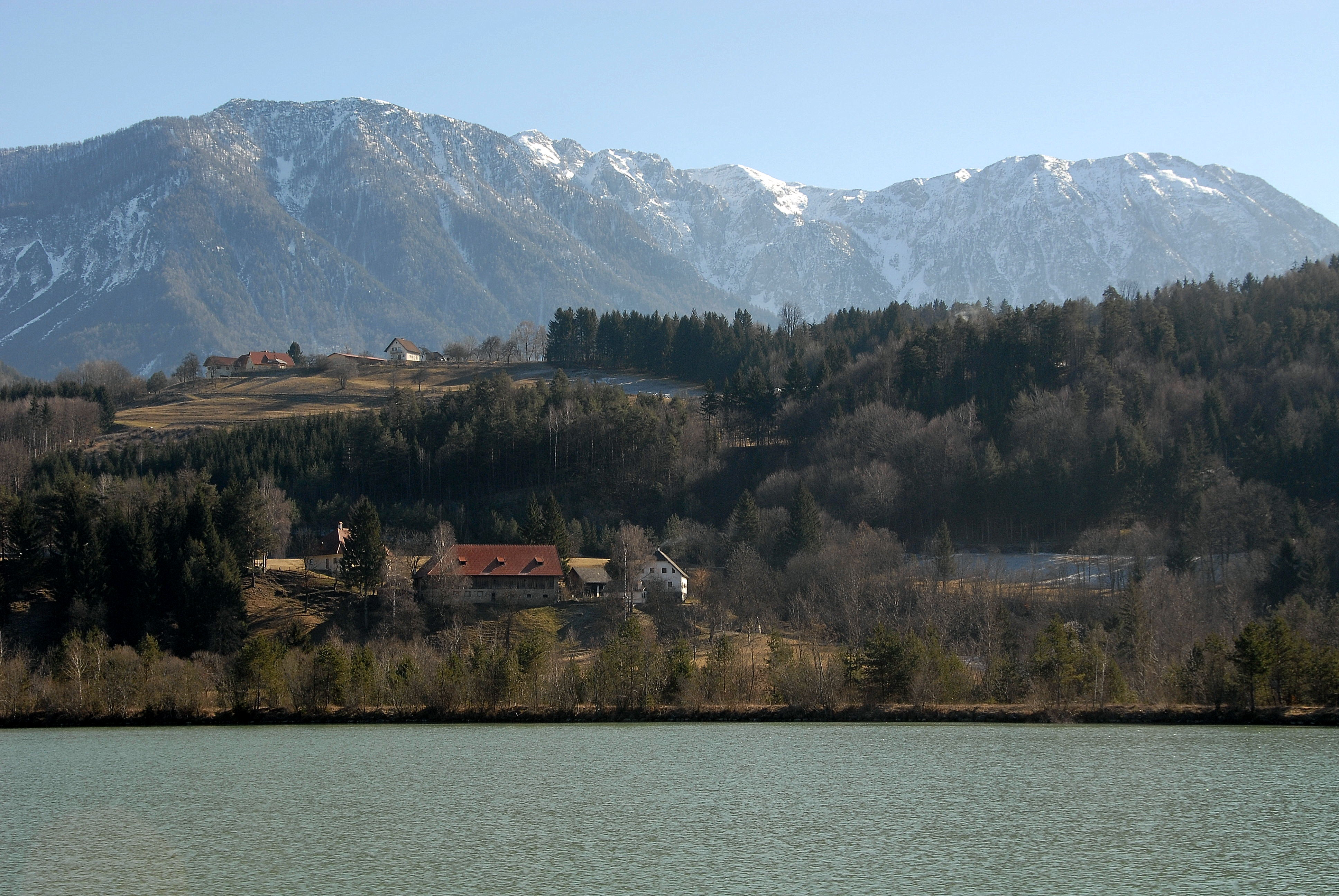 View across the Drau reservoir at the hamlet Trieblach, community Sankt Margareten im Rosental, Klagenfurt-Land, Carinthia, Austria (mountains “Kleinobir” (1948 m) on the left and "Hochobir" (2138) on the right hand in the background)